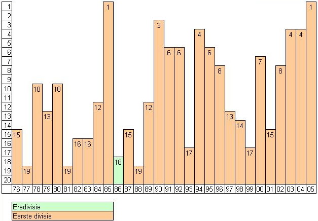 Dutch league positions of Heracles, last 30 seasons